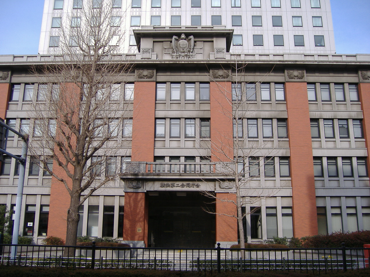 Yokohama Government building (Yokohama,Japan)